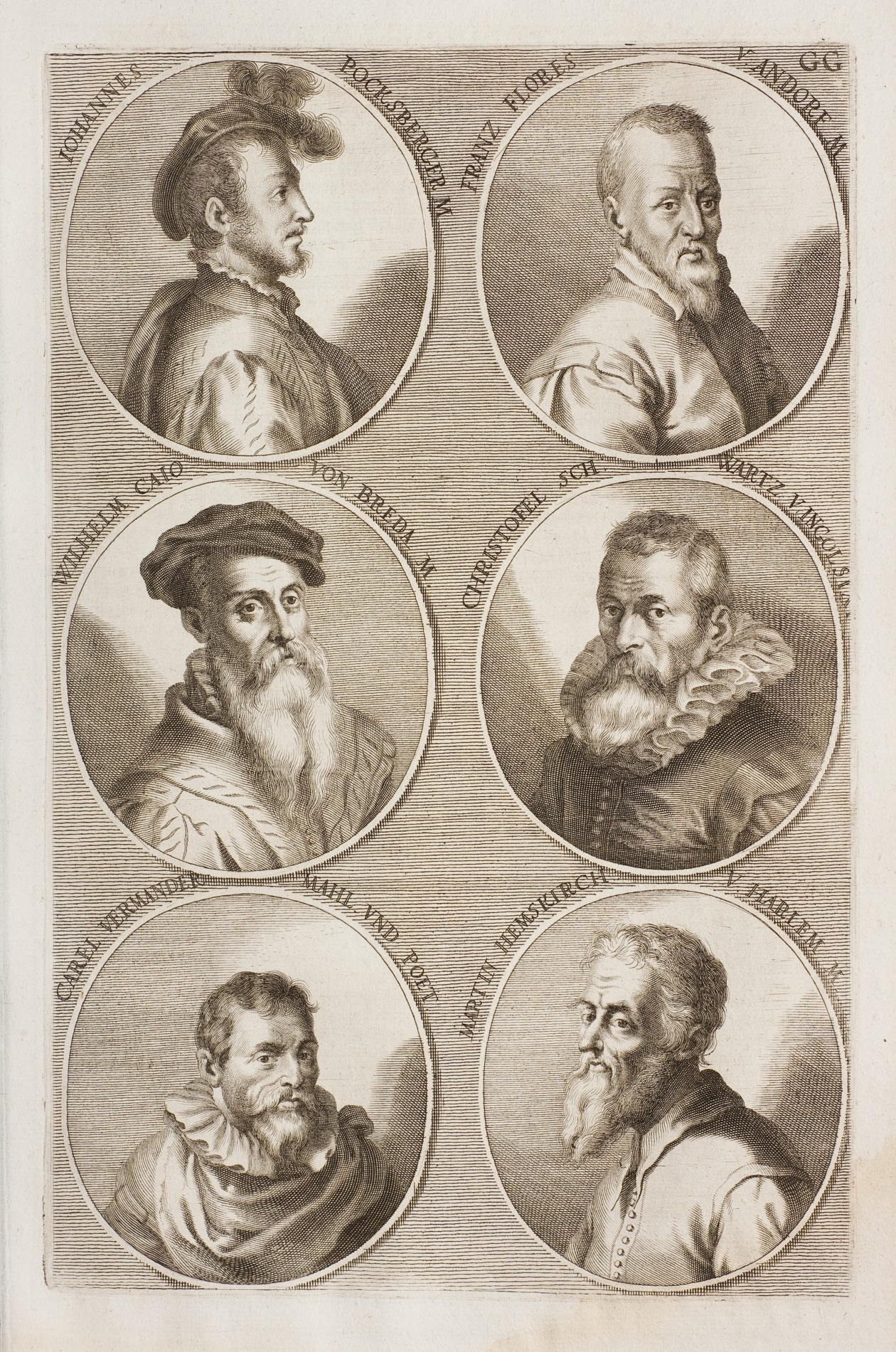 Engraving from the German Academy of the Noble Arts of Architecture, Sculpture and Painting, or Teutsche Academie, a comprehensive dictionary of art by Joachim von Sandrart, published in 1675 and later illustrated with engravings in 1683 Johann Bocksberger, Frans Floris, Willem Key, Christoffel Schwarz, Karel van Mander, Marten van Heemskerck